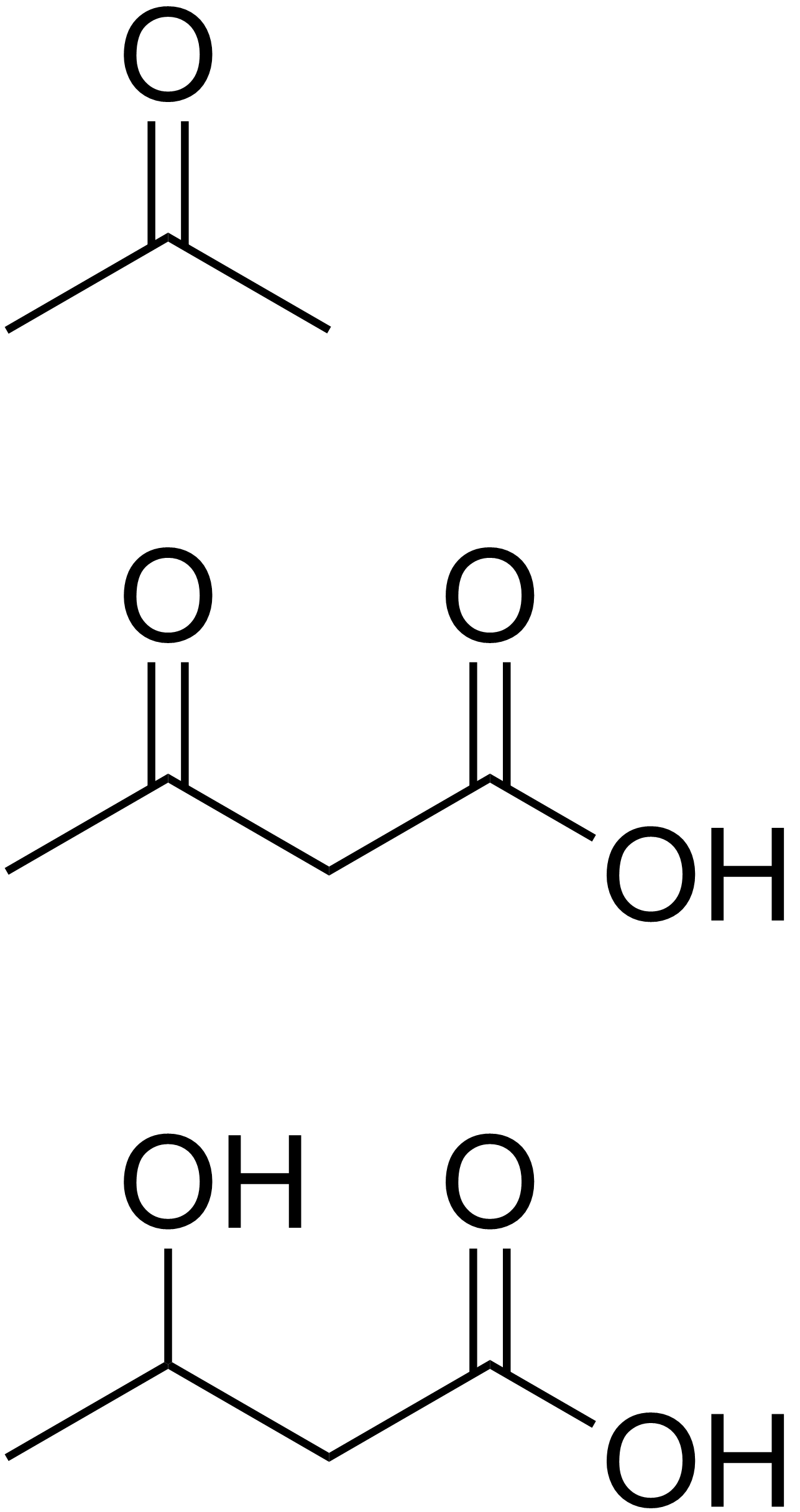 chemical structures of various ketone bodies - acetone, acetoacetic acid, and beta-hydroxybutyric acid